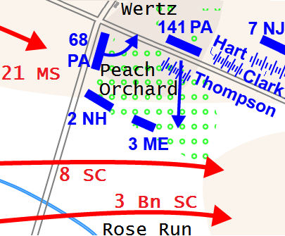 Peach Orchard south of Wertz House